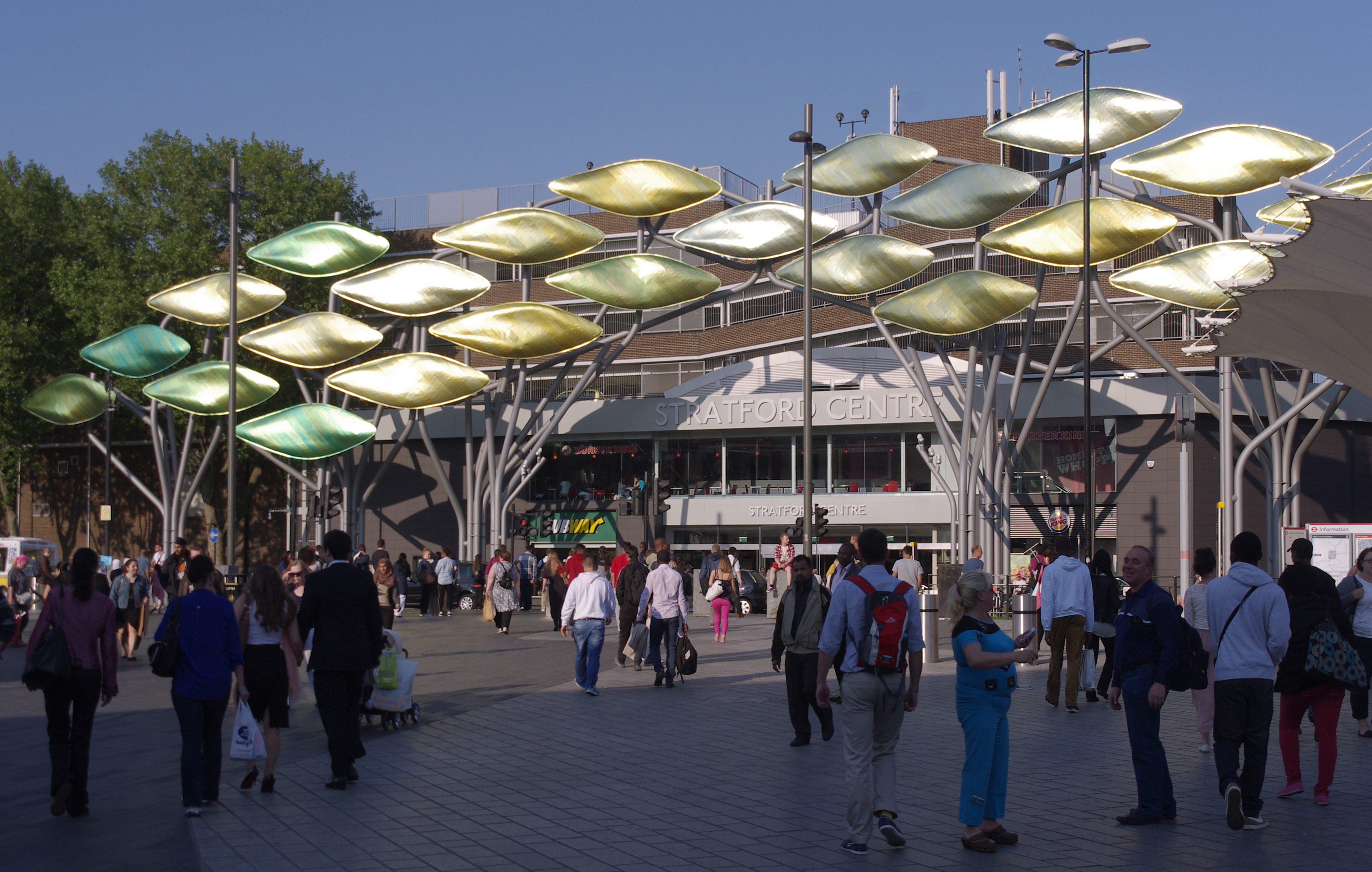 The artistic trees of the Stratford Centre reflect the evening sunlight.